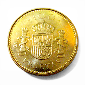 One hundred Spanish pesetas (100 ESP) coin from 1999, usually called "veinte duros".